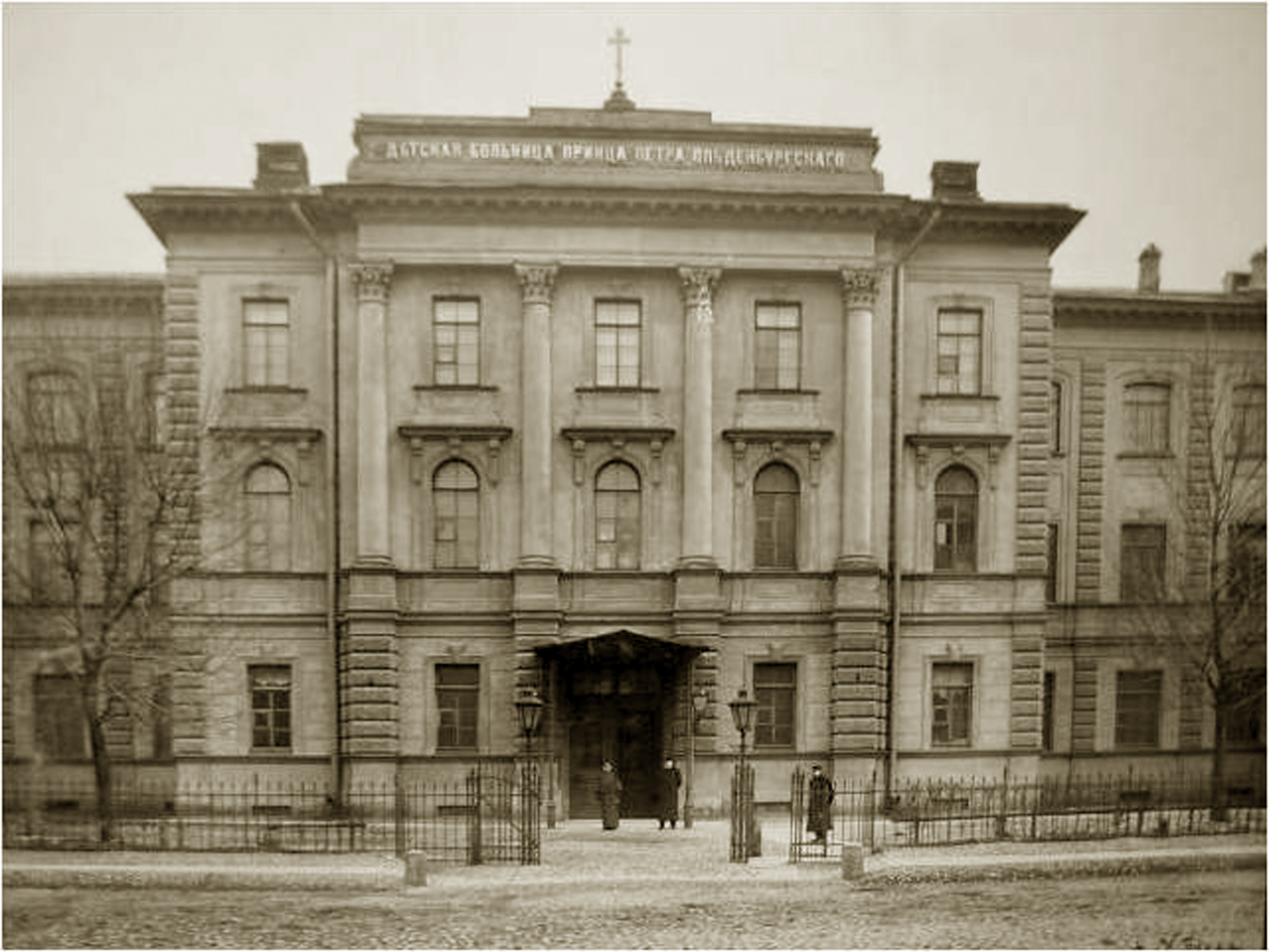 Hospital named after Rauhfus